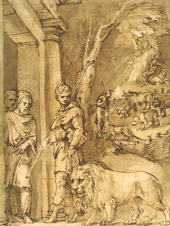 A drawing by Baldassare Peruzzi illustrating the account of Androcles and the lion by Aulus Gellius. Pen and brush and brown wash, squared up in black chalk, 27 × 20.5 cm (10.6 × 8.1 in), early 1530s. Now in the State Hermitage Museum, St Petersburg.